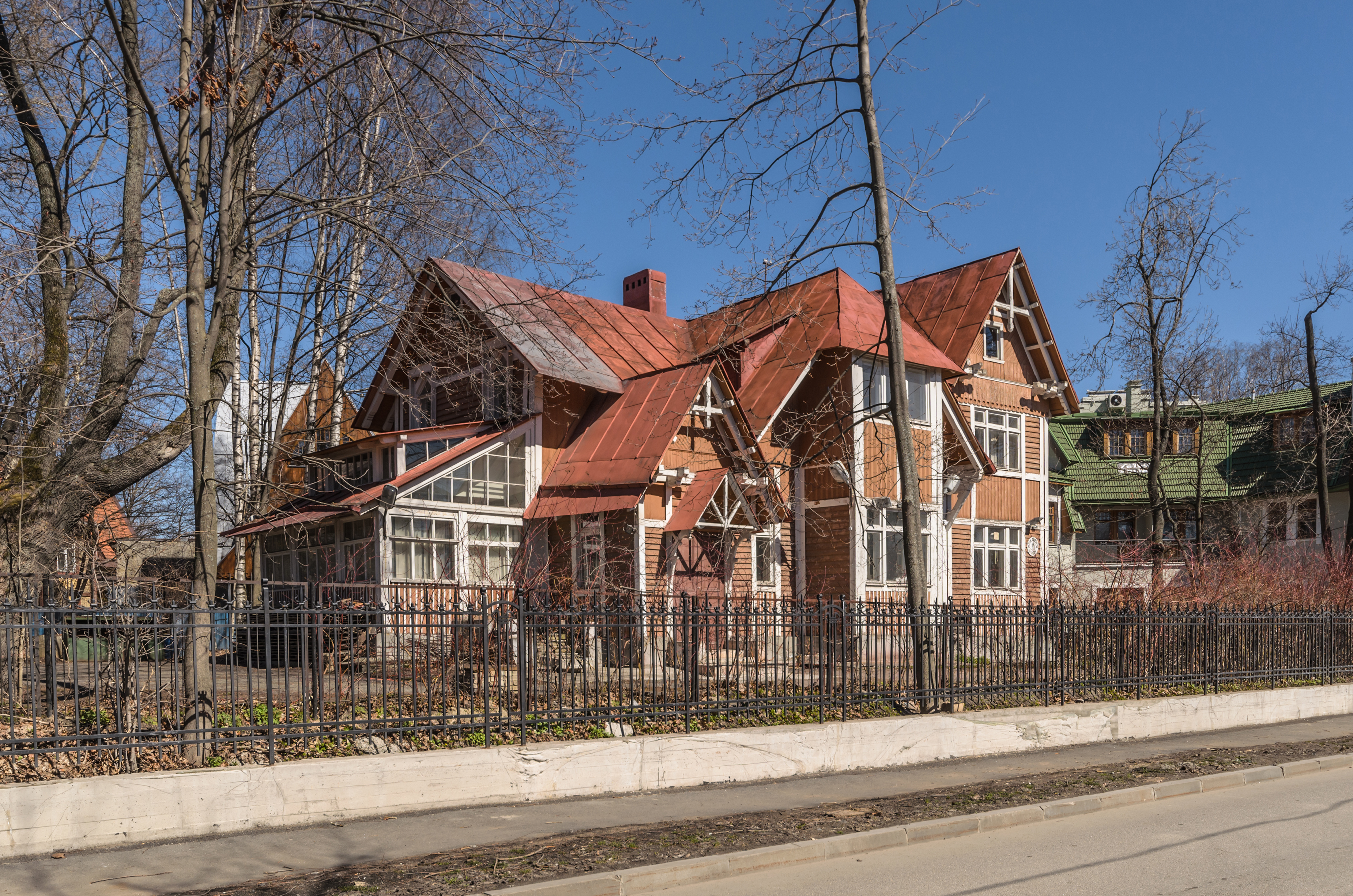 Gose's house in Saint Petersburg